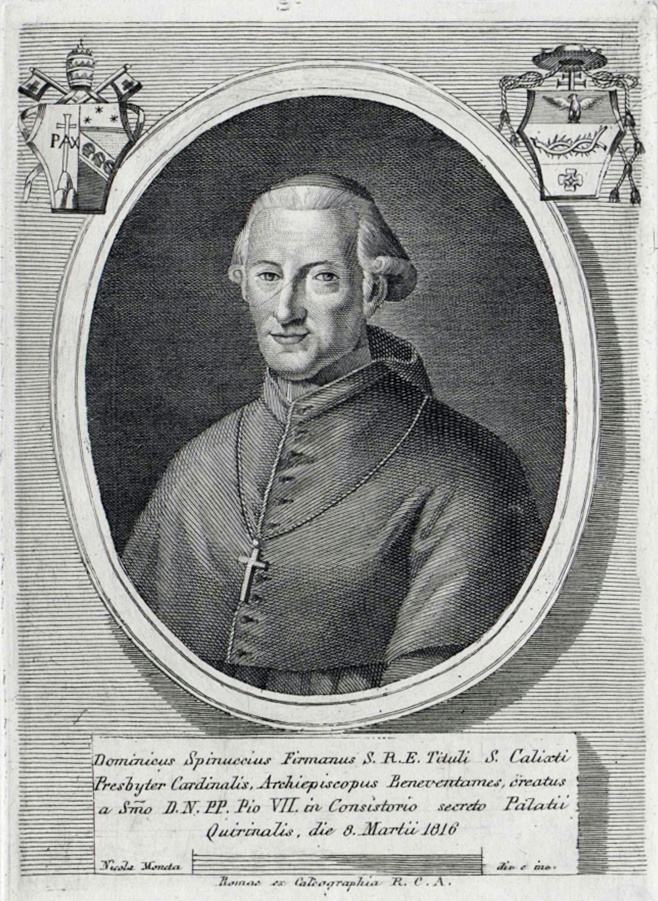 Kardinal Domenico Spinucci (1739-1823)